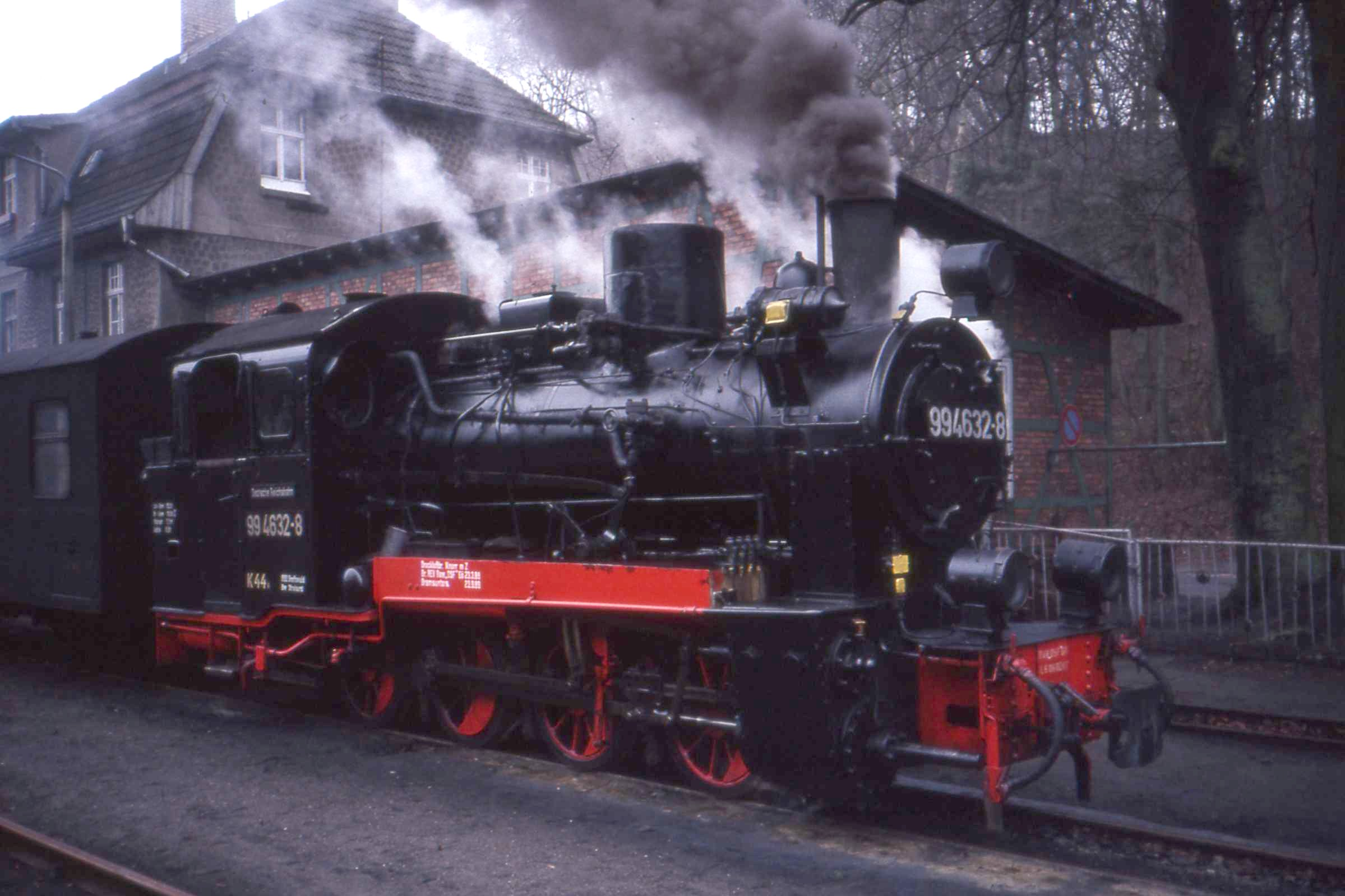 99 4632-8 waits at Ostseebad Göhren for the return journey to Putbus.